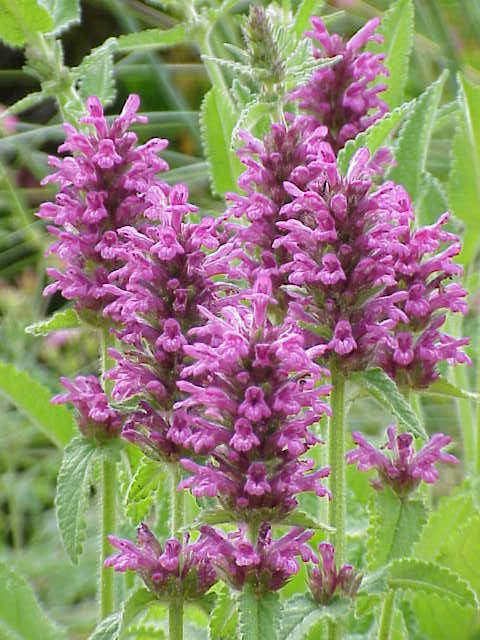 Species: Stachys pradica Family: ' Image No. 1